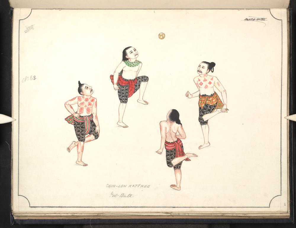 Watercolour painting by an unknown Burmese artist depicting 19th century Burmese life. Text: CHIN-LON KATTHEE Foot-ball. Shelfmark: Ms. Burm. a. 5